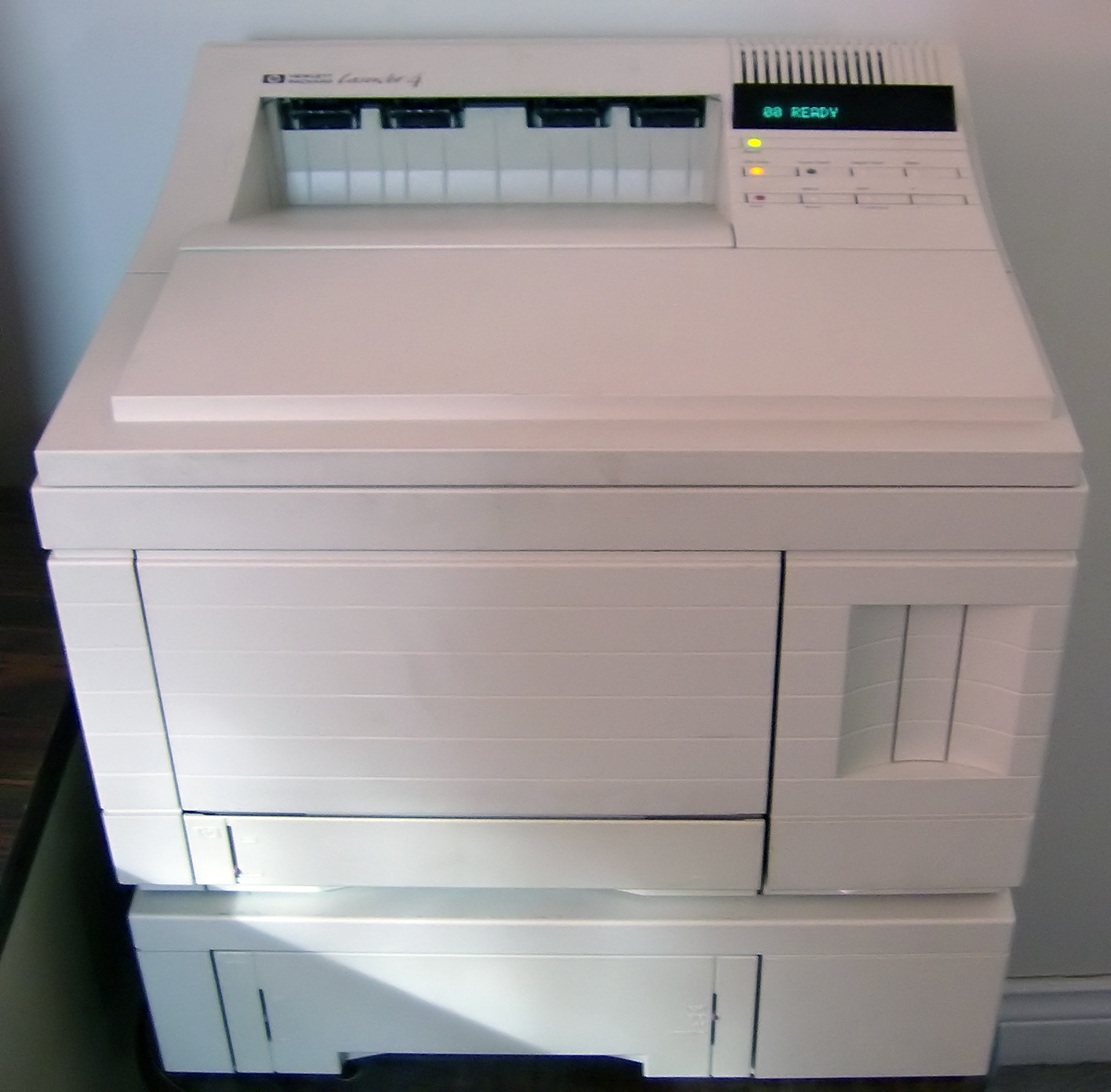 Self-taken photo on April 22, en:2007. Hewlett-Packard LaserJet 4 with extra 500-sheet legal paper tray. Manufactured December en:1993.